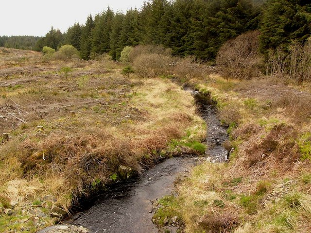 Dergoals Burn This becomes the Barnsallie Burn further downstream.